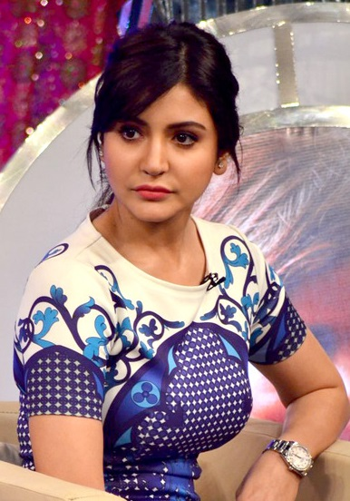 Anushka Sharma at "OUR GIRL OUR PRIDE" fundraiser